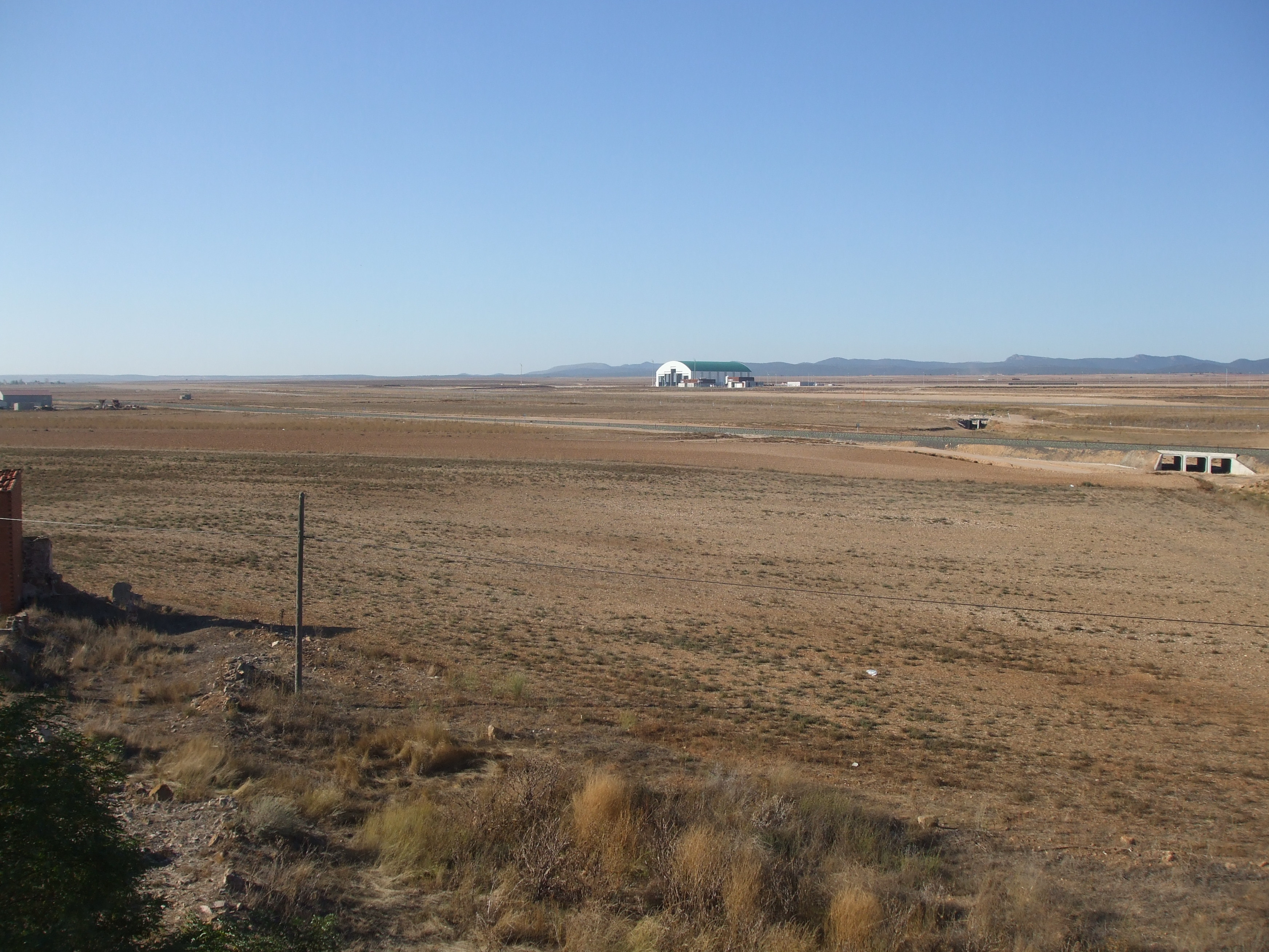 The fomer military airfield "Caudé" lies some 10km north of the Spanish provincial capital Teruel in lower Aragon. After it was disposed of by the Spanish military it has been converted into a civil airport.